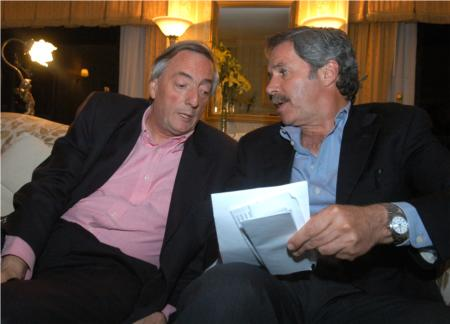 Argentine president Néstor Kirchner (left) and governor of Buenos Aires Province Felipe Solá (right)